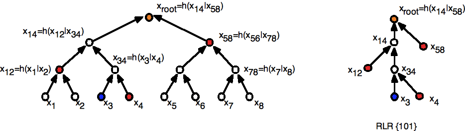 8 leaf node hash tree and hash chain juxtaposition